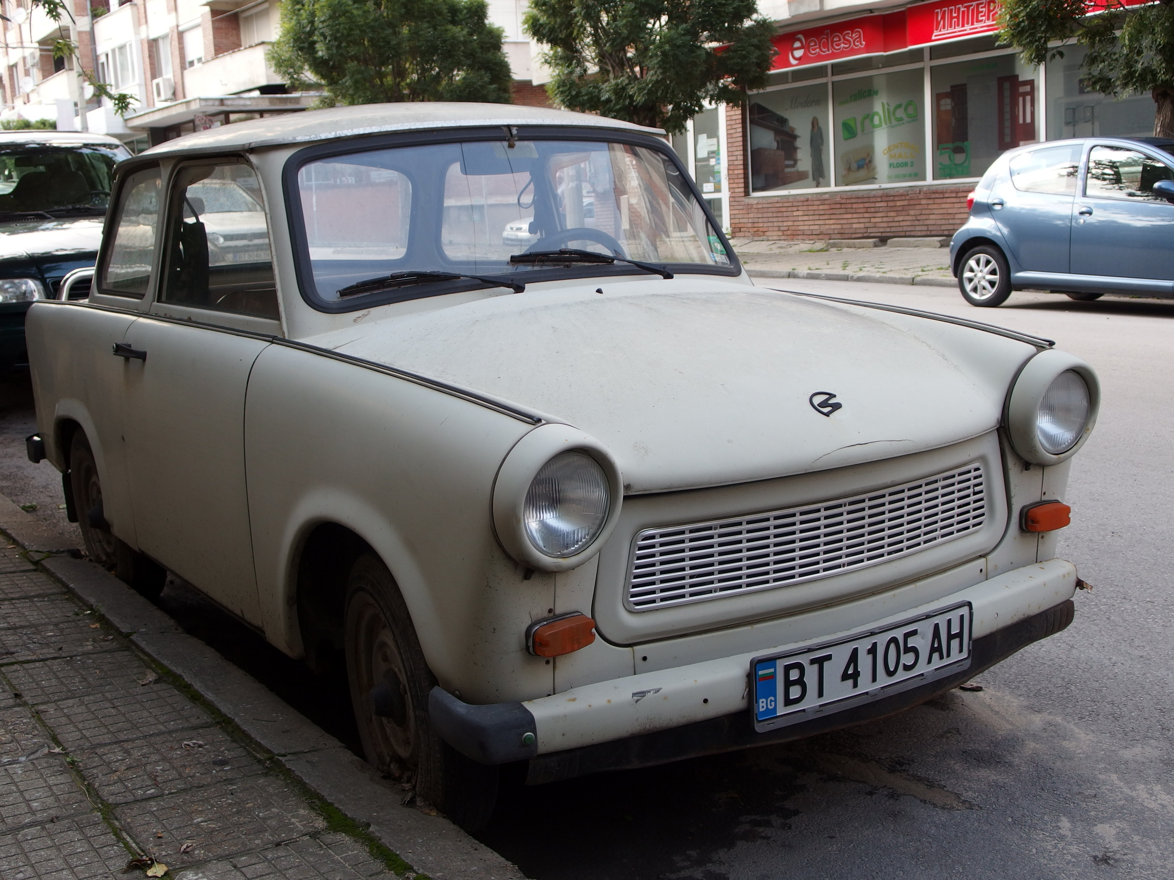 2014-06-20 in Veliko Tarnovo.